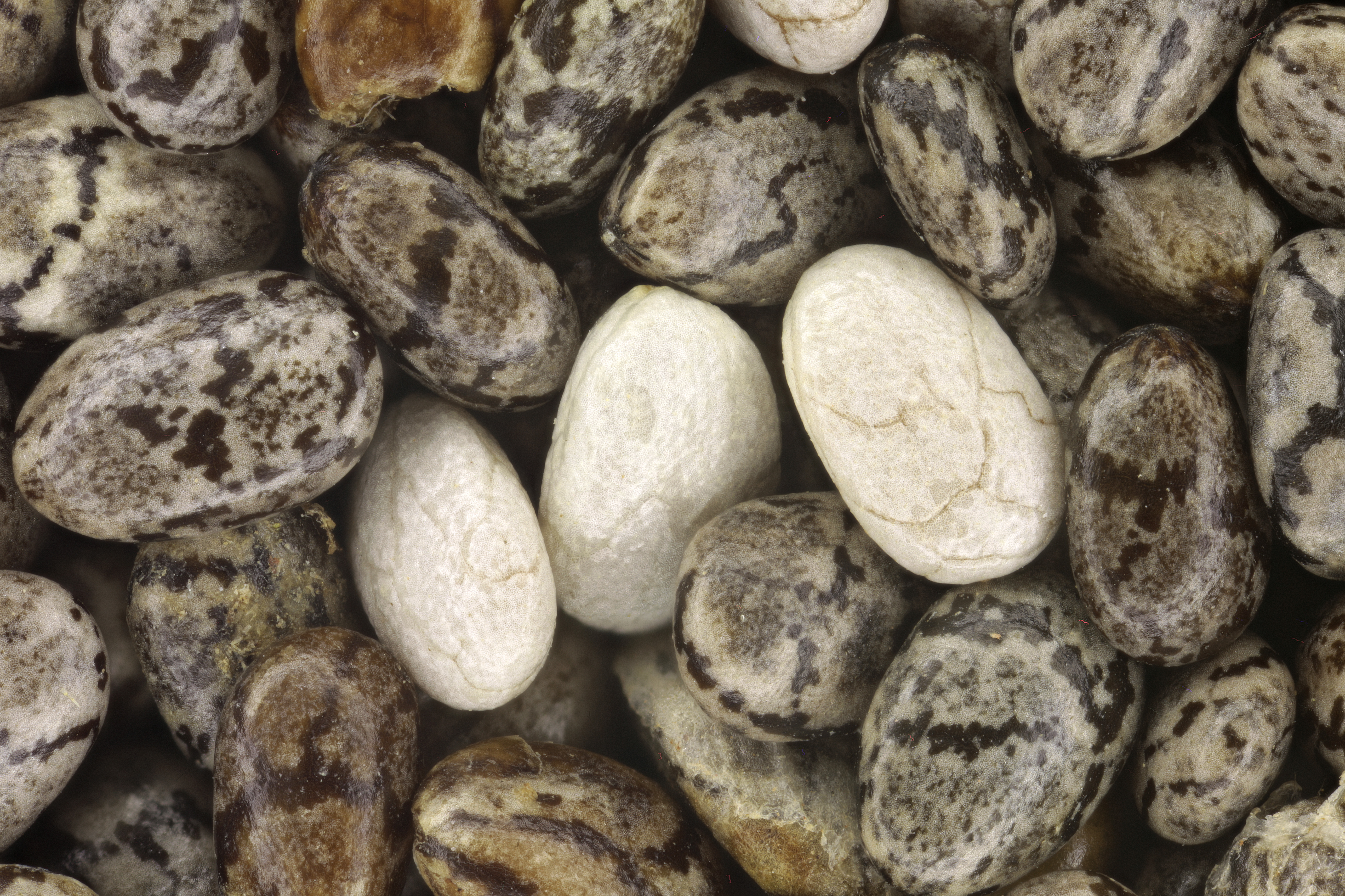 Detail image of general Chia seeds.